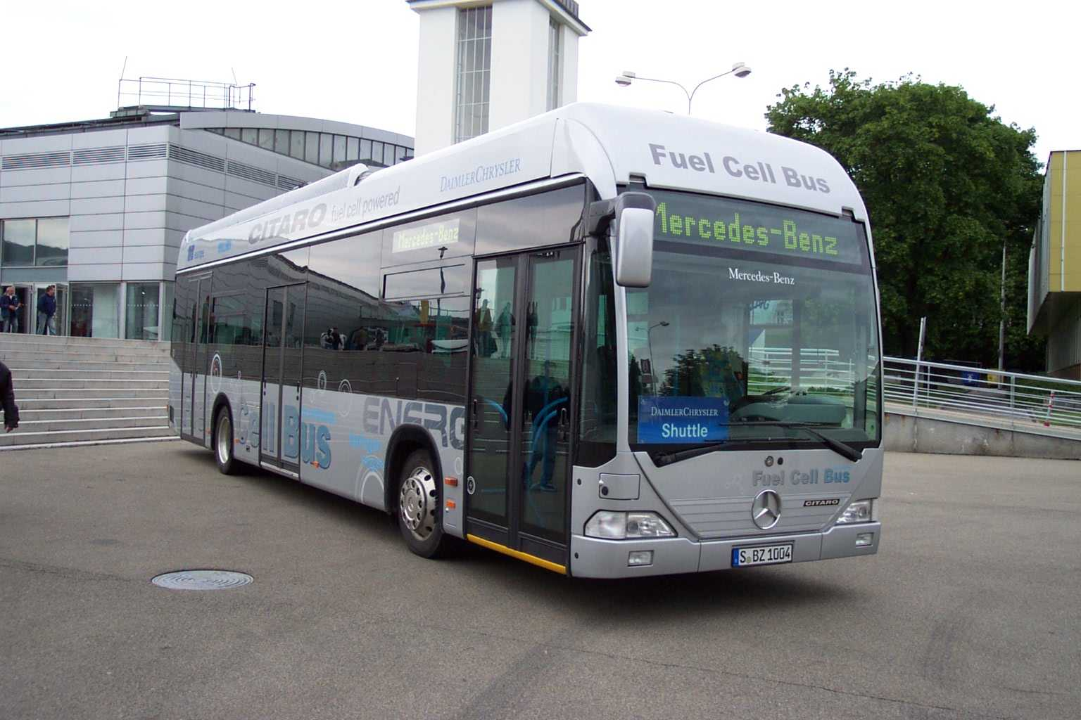 Mercedes-Benz Citaro bus with fuel-cells engine at trade fair Autotec in Brno, Czech Republic in 2006